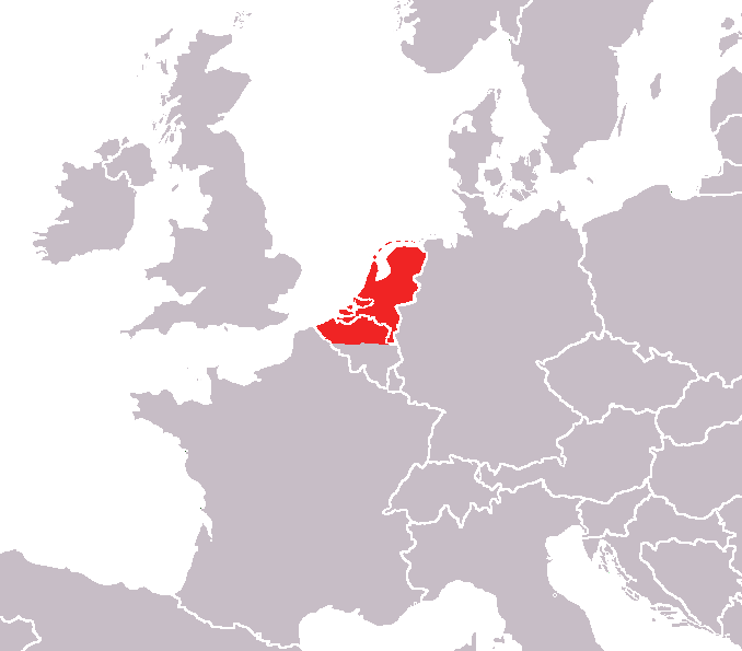 Dietsland: Flanders and the Netherlands. Rex 18:11, 21 September 2006 (UTC)